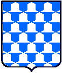 Vair, modern style.